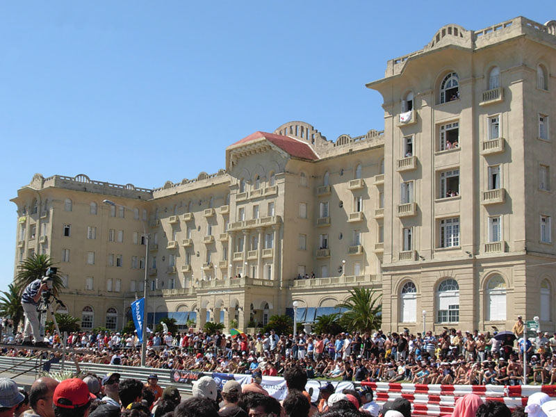 Façade of the Argentino Hotel de Piriápolis during the 2008 Piriápolis Grand Prix weekend